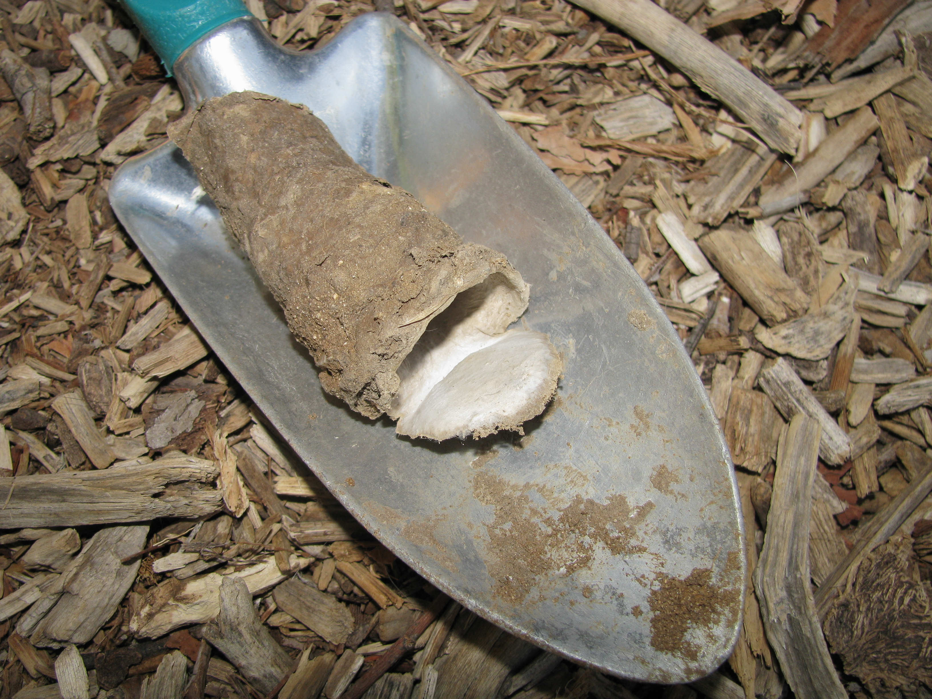 Bothriocyrtum californicum nest Comments on ID: The ID was based on information from this site, The image was taken in Fullerton, California, USA